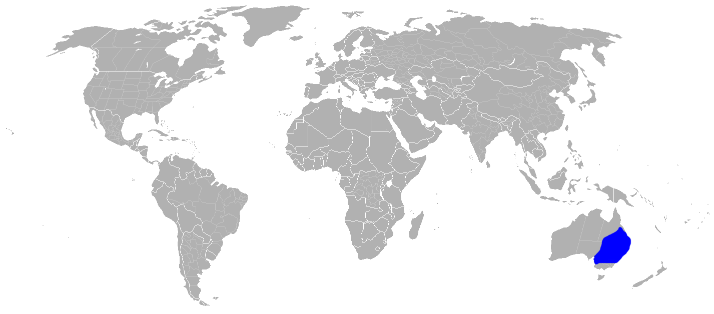 Range of Plectorhyncha lanceolata in blue.